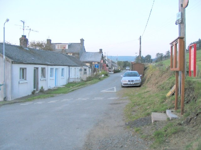 Rosebush. This is the very straight road in Rosebush that heads off towards the quarry.